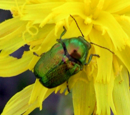 Cryptocephalus_sericeus by Archenzo I take this picture in Capanne di Marcarolo regional park. Alessandria Italy. May 2005